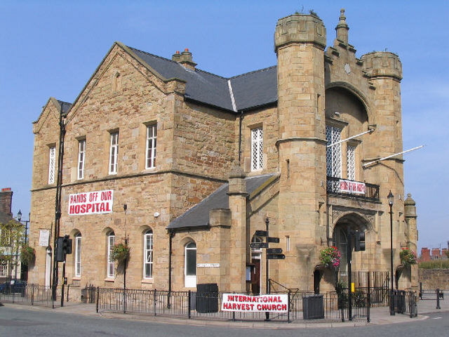 Flint Town Hall Built in 1840. Further info at